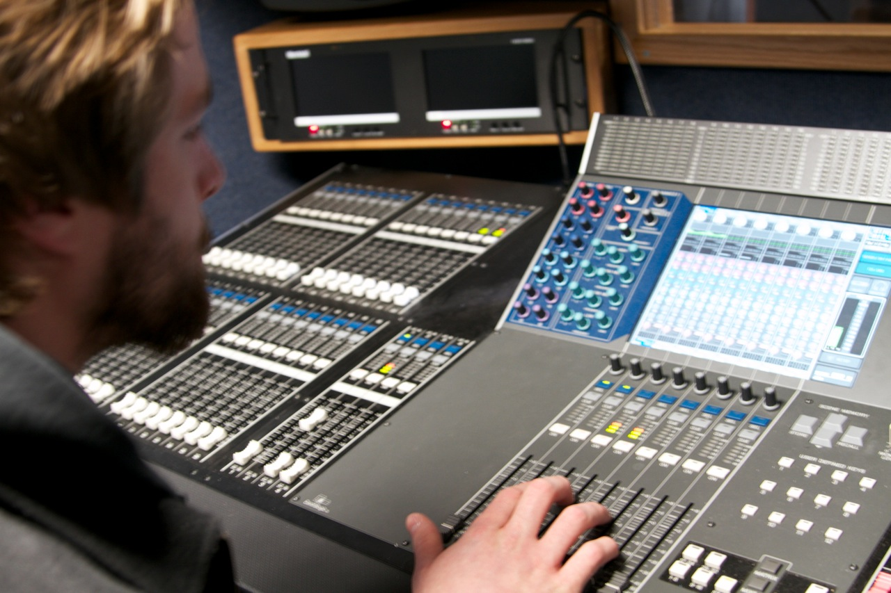 A students operates a switcher during a production in the College of Fine, Performing, & Communication Arts at Wayne State University in Detroit, MI, USA